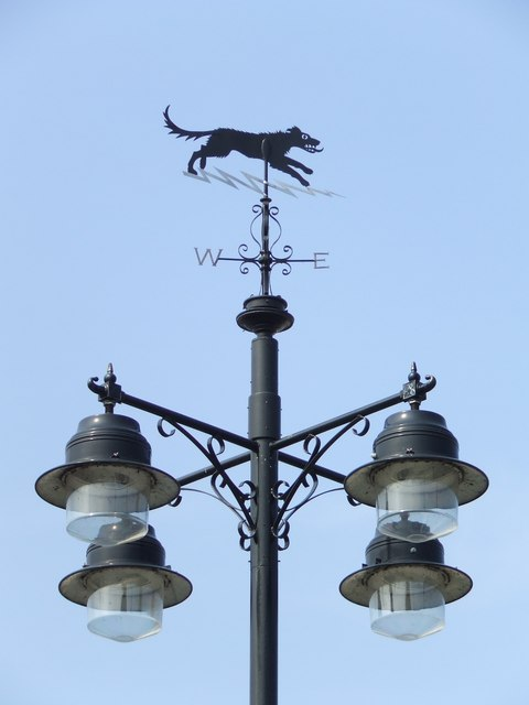 Street light detail. The Black Dog of Bungay Suffolk on top of the street light for overall view see 900289 The Black Dog weathervane, also known as Black Shuck, is related to death and superstition, and derived from the Norse war-dog, the Hound of Odin. This wild-eyed, teeth bearing, dog in silhouette, rides a lightning bolt and was designed in 1933 by a child attending Bungay village school in a competition.